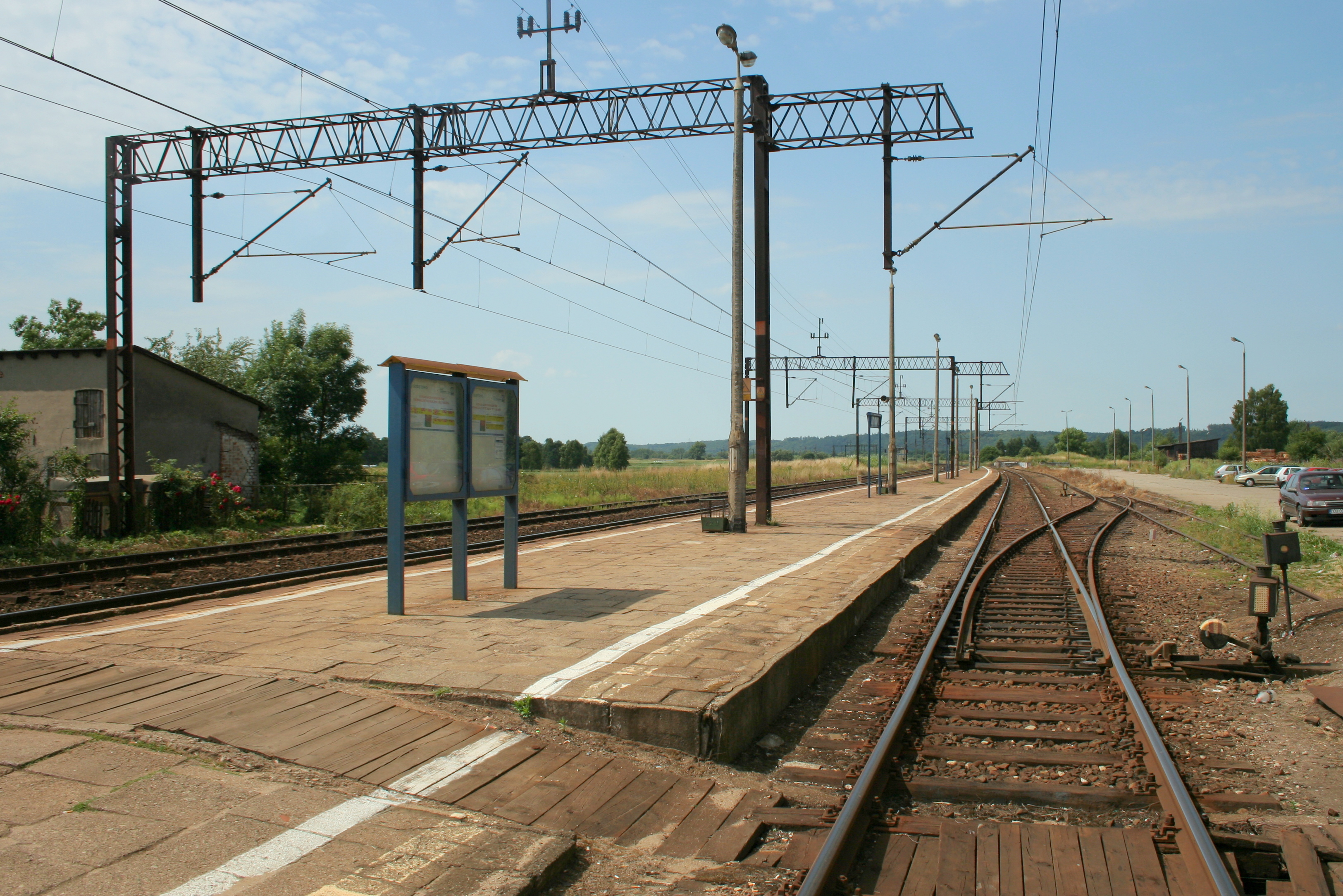 Train station in Godętowo.